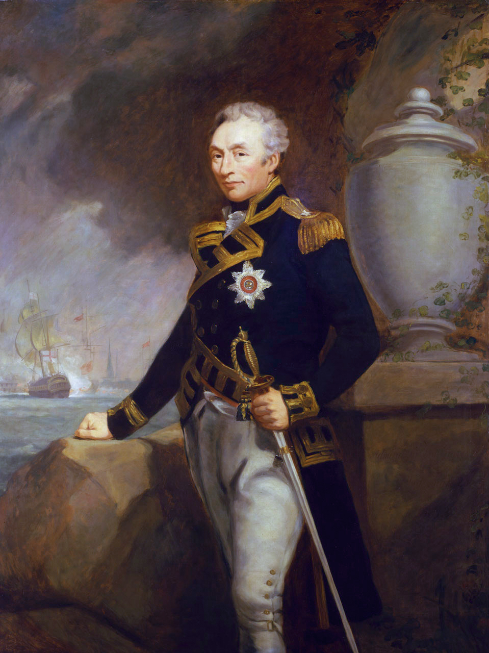 Admiral Thomas Graves. Admiral Sir Thomas Graves KB RN (1747?–1814), admiral, third son of the Rev. John Graves of Castle Dawson, Ireland, was nephew of Admiral Samuel Graves , and first cousin once removed of Admiral Thomas, Lord Graves.